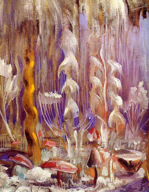 Painting Pasaulio sutvėrimas X (Creation of the World X).